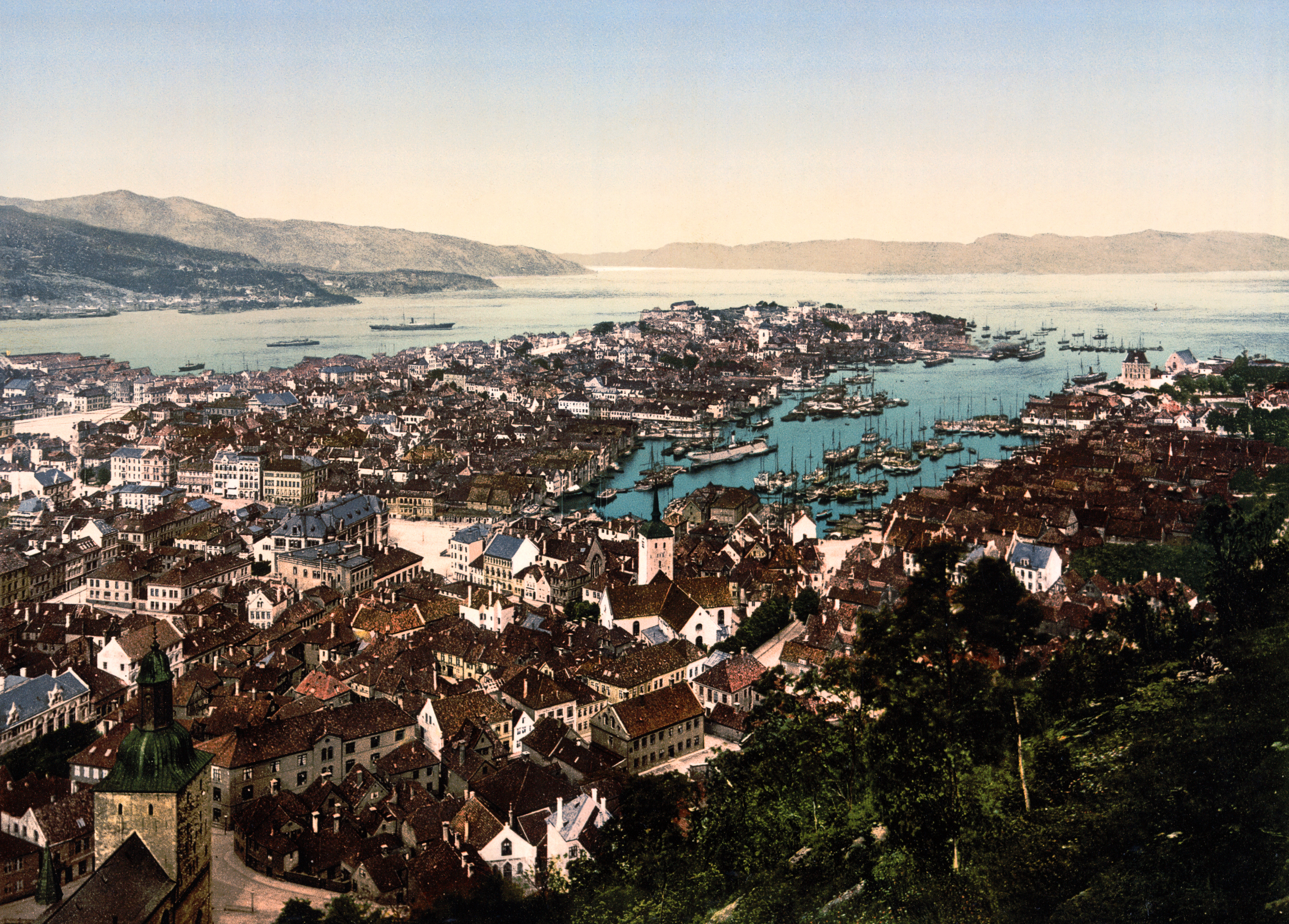 A panoramic view of the city of Bergen in Hordaland, Norway.